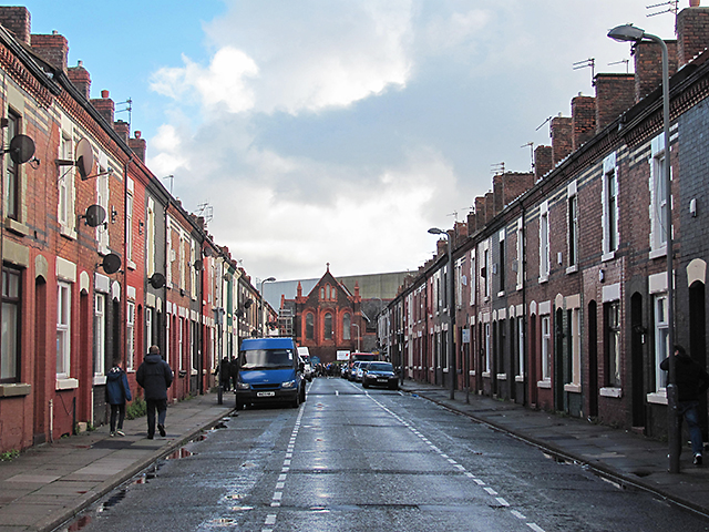 View towards St Luke's Church